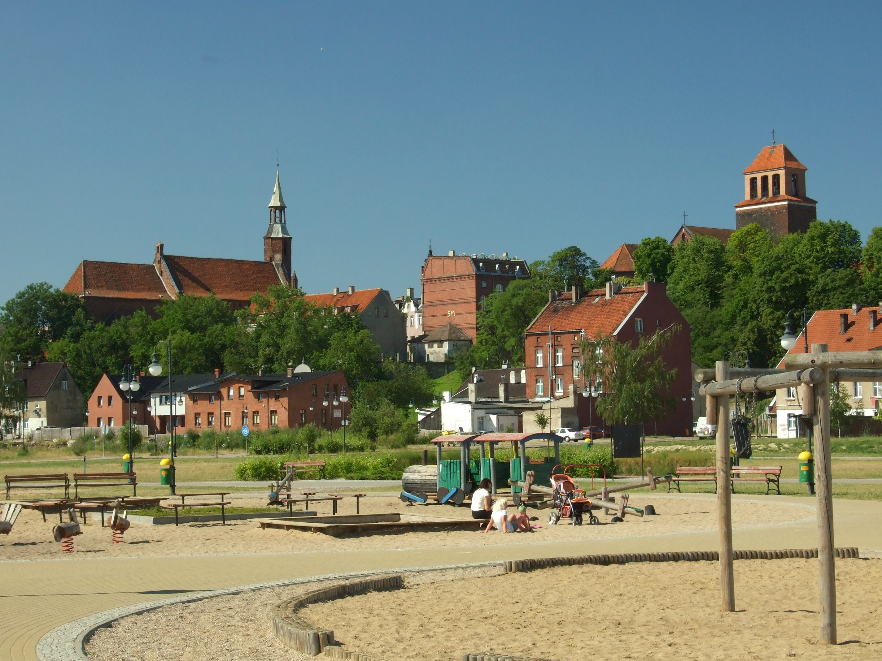 A view of historic centre of the city of Tczew from the Vistula riverbank. Close to the river a park and playground can be seen (in the foreground), the city itself is in the distance on a small hill. Pomeranian voivodeship, Poland